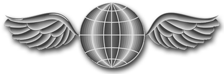 US Navy Aviation Electrician's Mate (AE). A winged globe, with five embroidered latitudinal lines and five embroidered longitudinal lines.